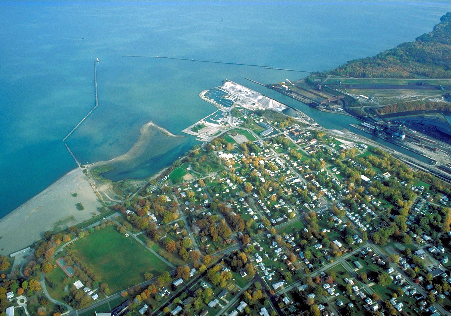 Aerial view of the port and harbor at Conneaut, Ohio, USA, on Lake Erie. View is to the northeast over the lake.